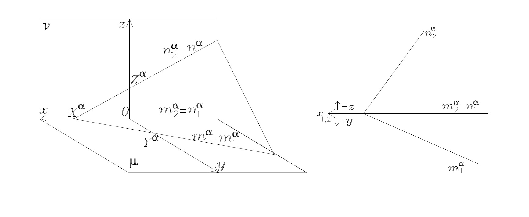 Изобразяване на равнина